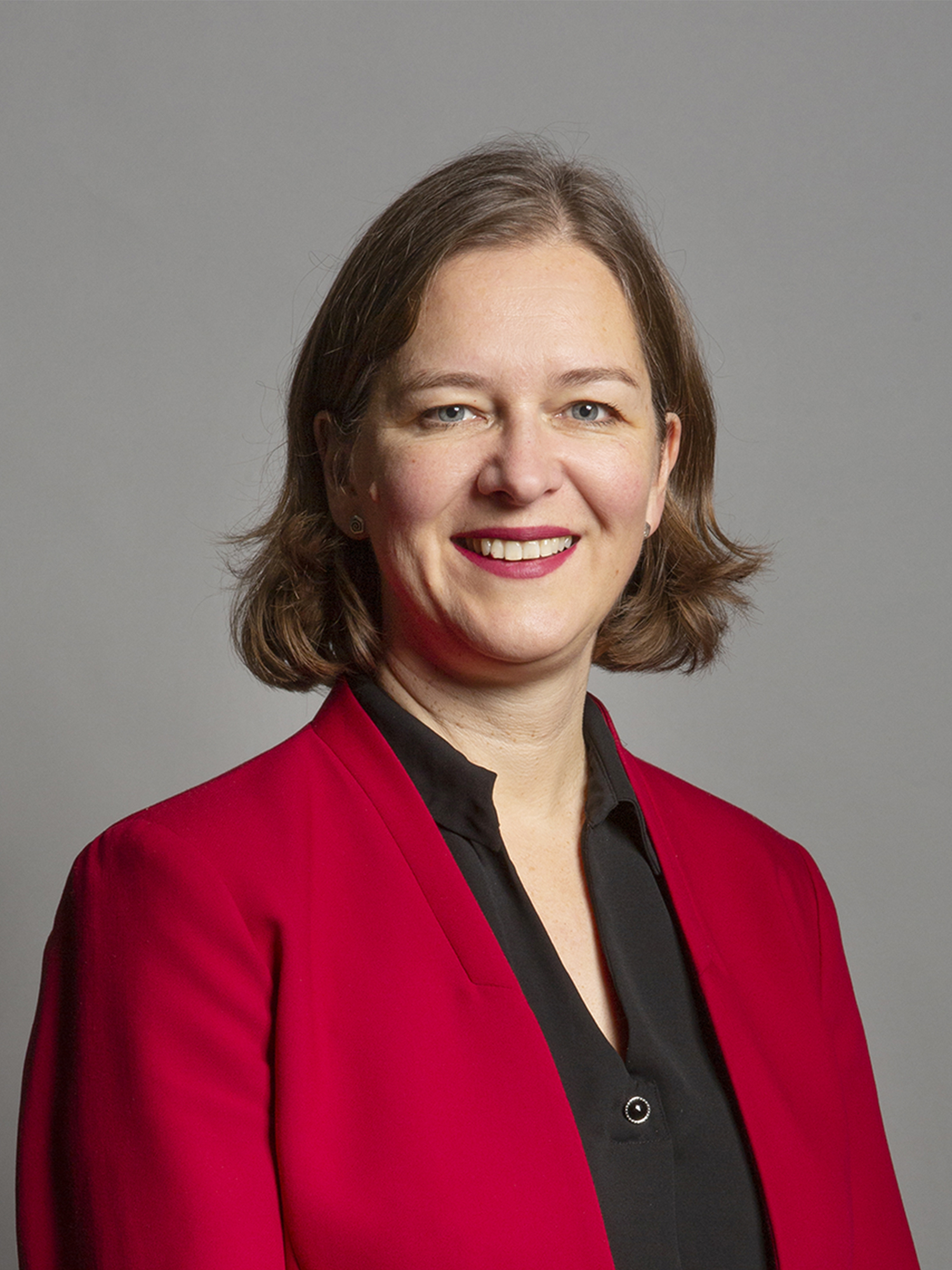 Official portrait of Fleur Anderson MP 3×4 portrait of Fleur Anderson